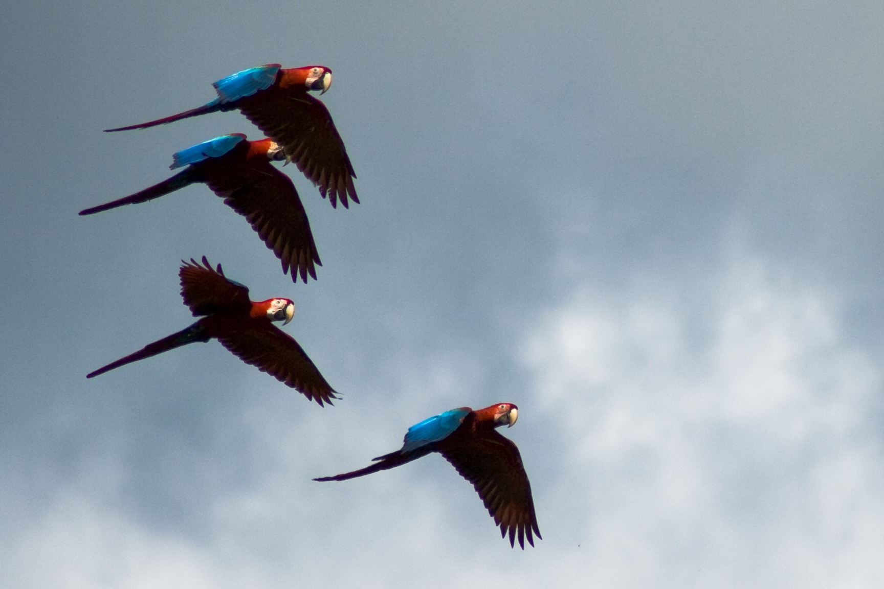 Four Red-and-green Macaws (also known as the Green-winged Macaws) flying in Peru.